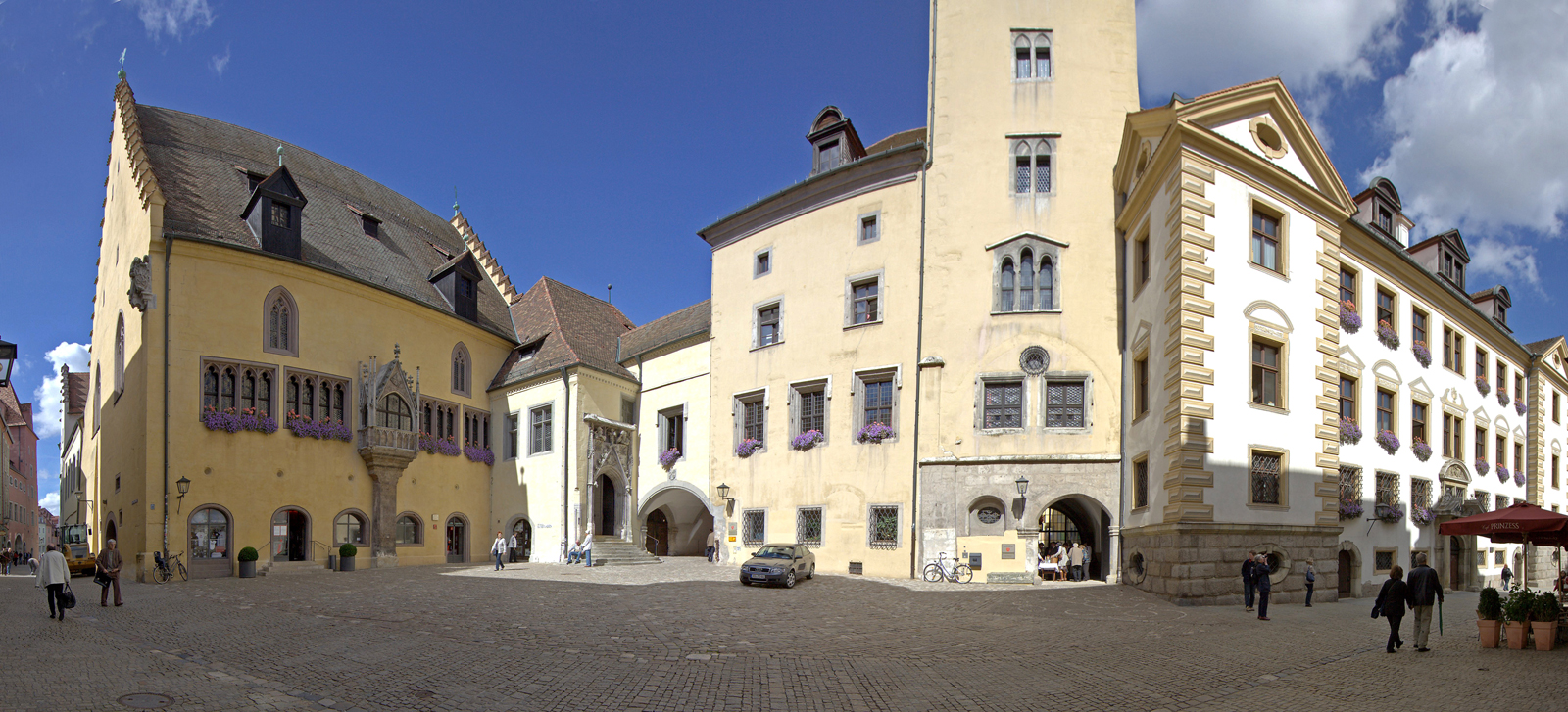 Regensburg, old City Hall (on the left).